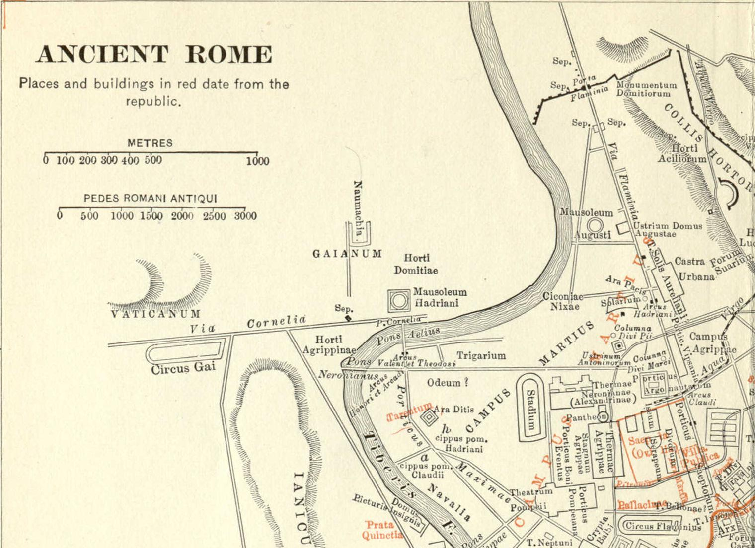 Map of Rome, made by S.B. Platner for his book "The Topography and Monuments of Ancient Rome" published 1911 - quadrante NW